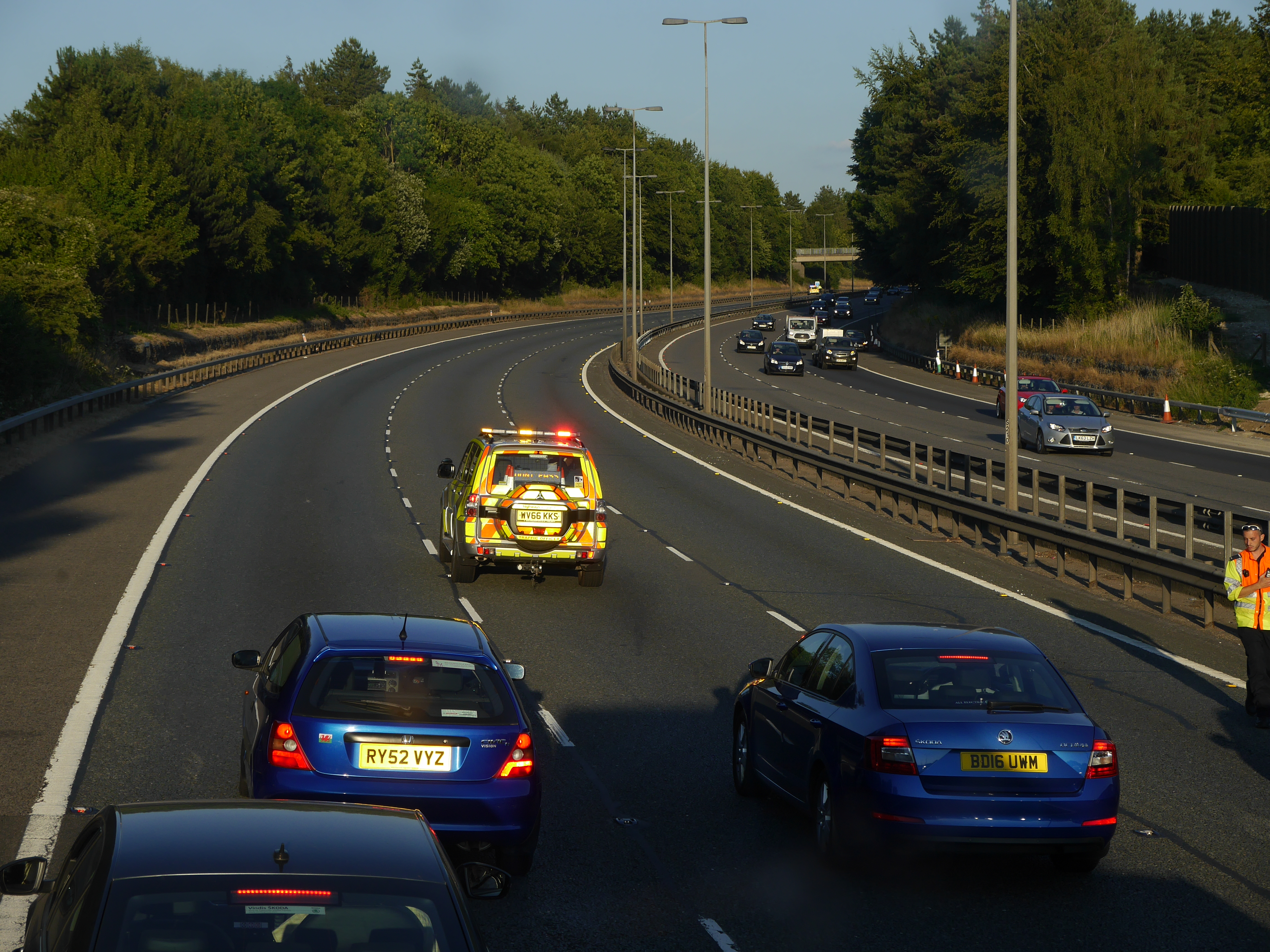 A rolling road block between junctions 4 and 5 of the M40 motorway near Lane End, England implemented by a Highways England Traffic Officer on 15 July 2018. Photographed from the top deck of an Oxford Tube coach.